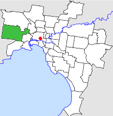 Location of the City of Sunshine within Melbourne.